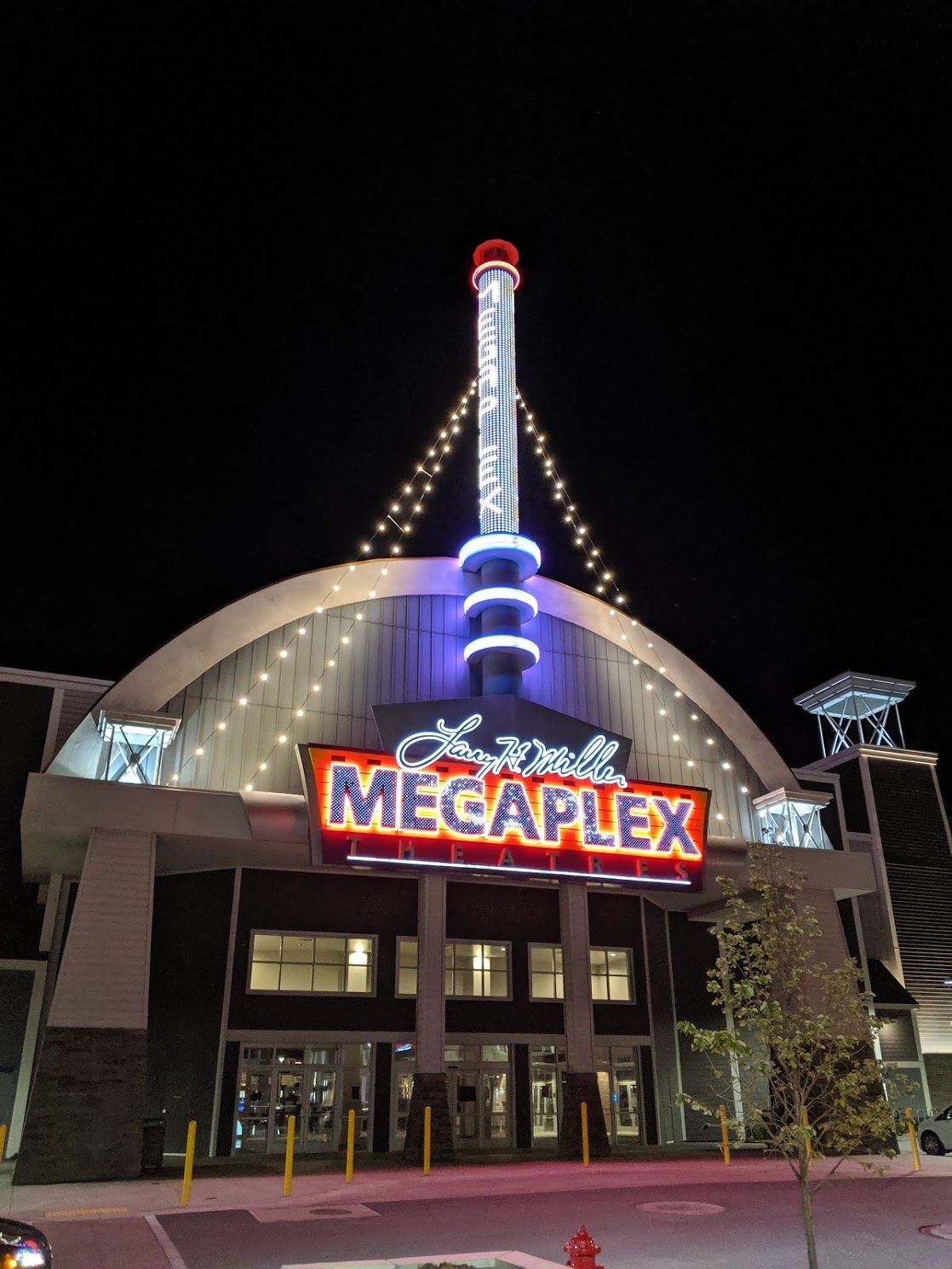 Larry H. Miller Megaplex Theatres at Geneva in Provo, Utah, USA